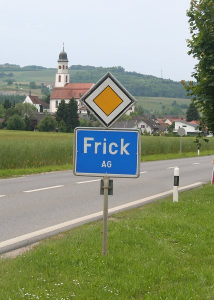 Photo of the village of Frick, Switzerland. Taken June 2006.